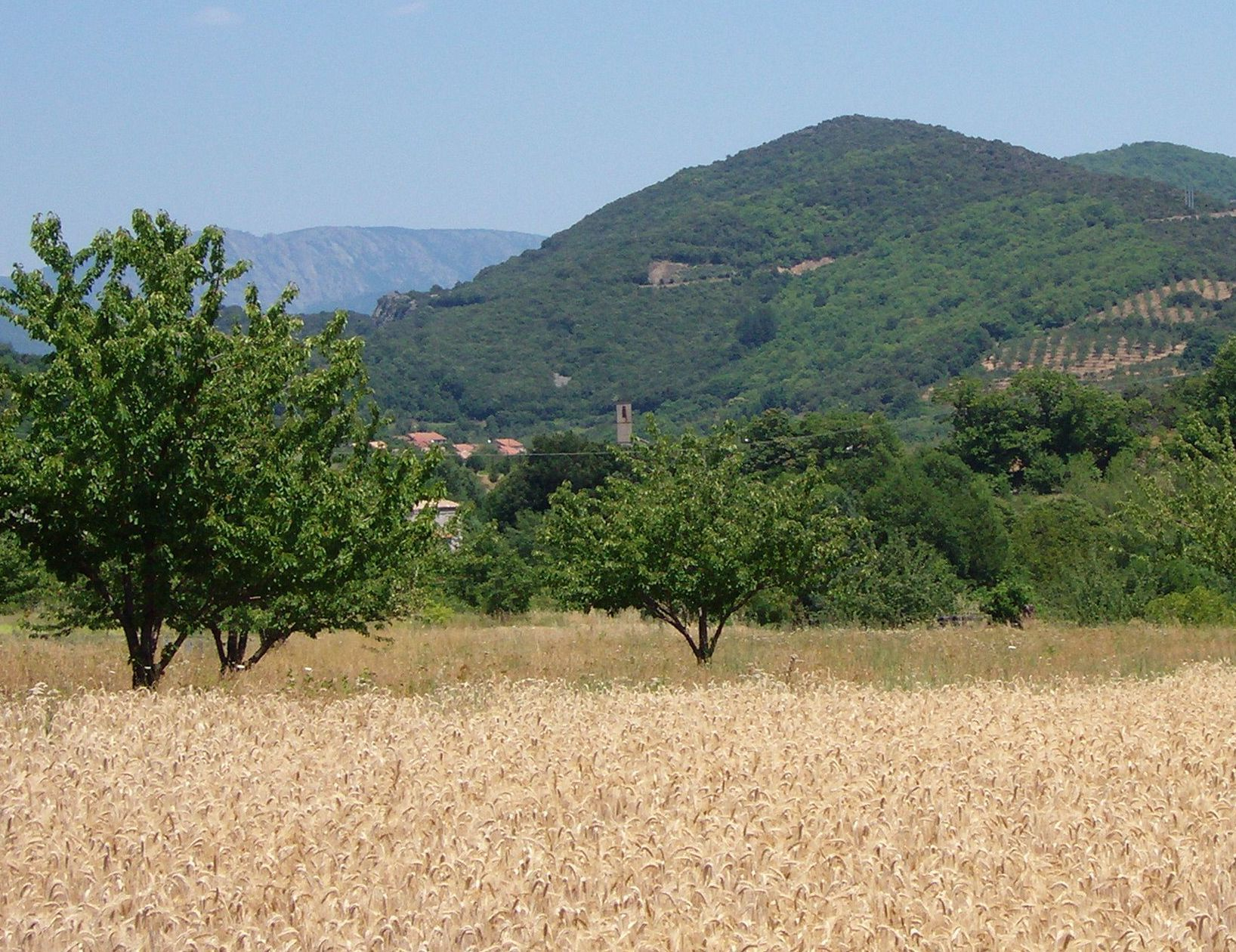 View on Saint-Étienne-d'Albagnan, Hérault